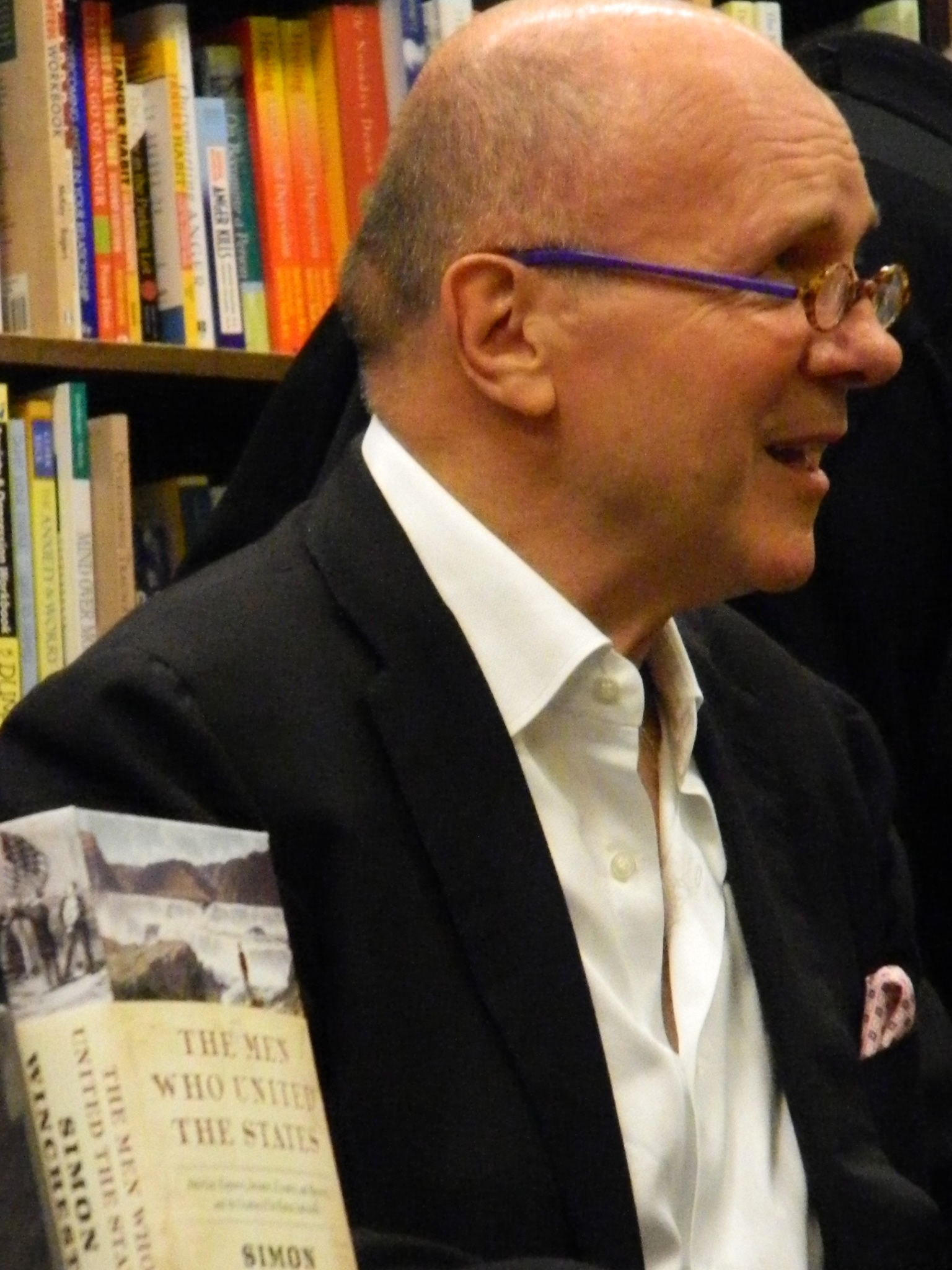 Winchester at New York Barnes & Noble for book signing and discussion, Oct. 21, 2013.